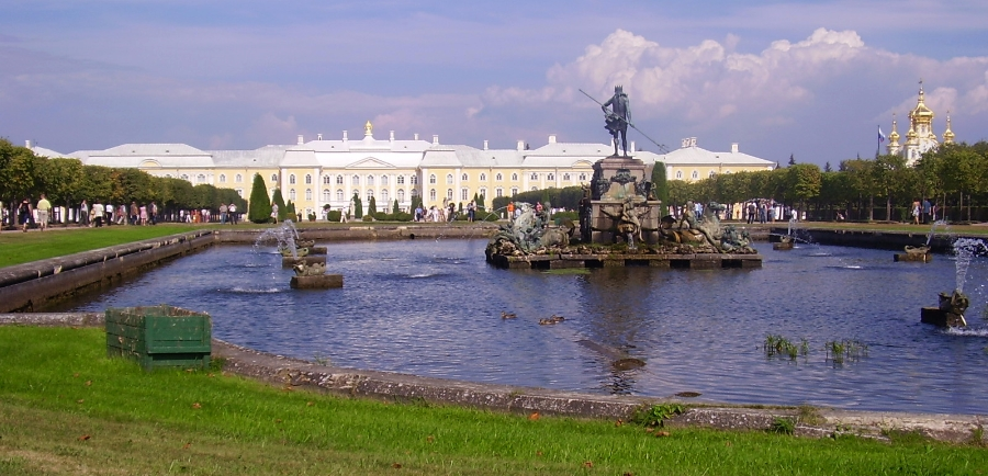 Peterhof, Upper Park: Neptune Fountain and Great Palace